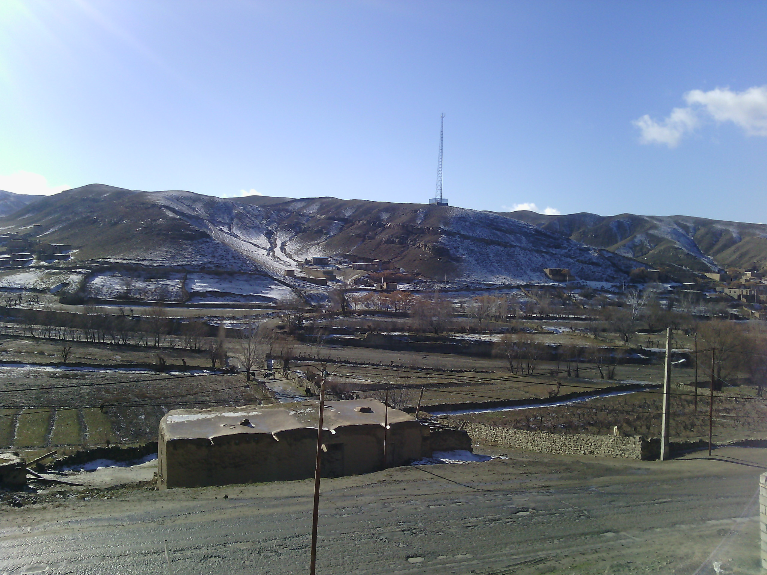 Tutli sufla